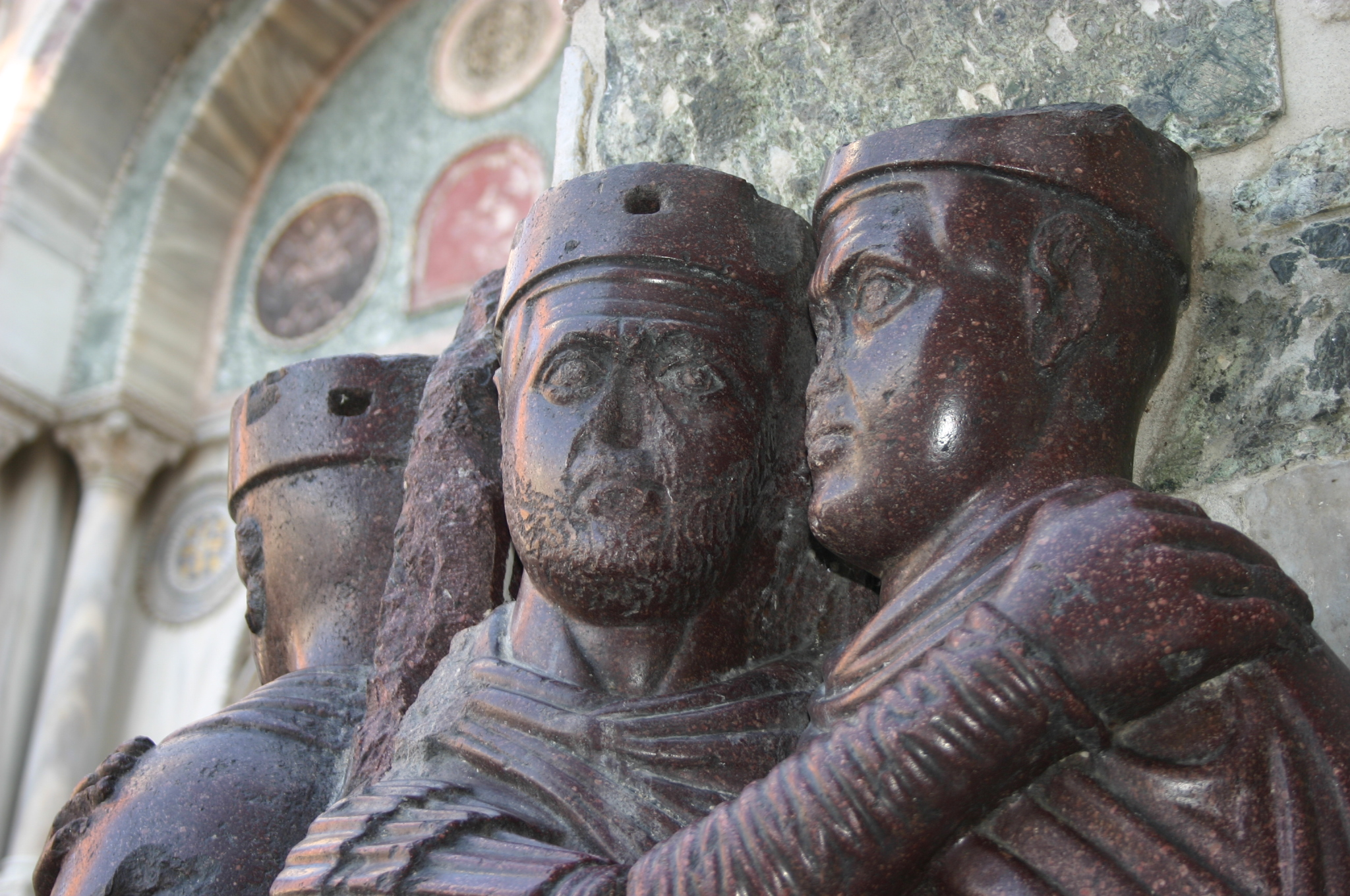 The tetrarchs (from the Greek words for "Four rules") were the four co-rulers that governed the Roman Empire as long as Diocletian's reform lasted. Here they were portraied embracing, in sign of harmony, in a porphyry sculpture dating from the 4th century, produced in Asia Minor, today on a corner of Saint Mark's in Venice, next to the "Porta della Carta". Picture by Giovanni Dall'Orto, August 12, 2007.